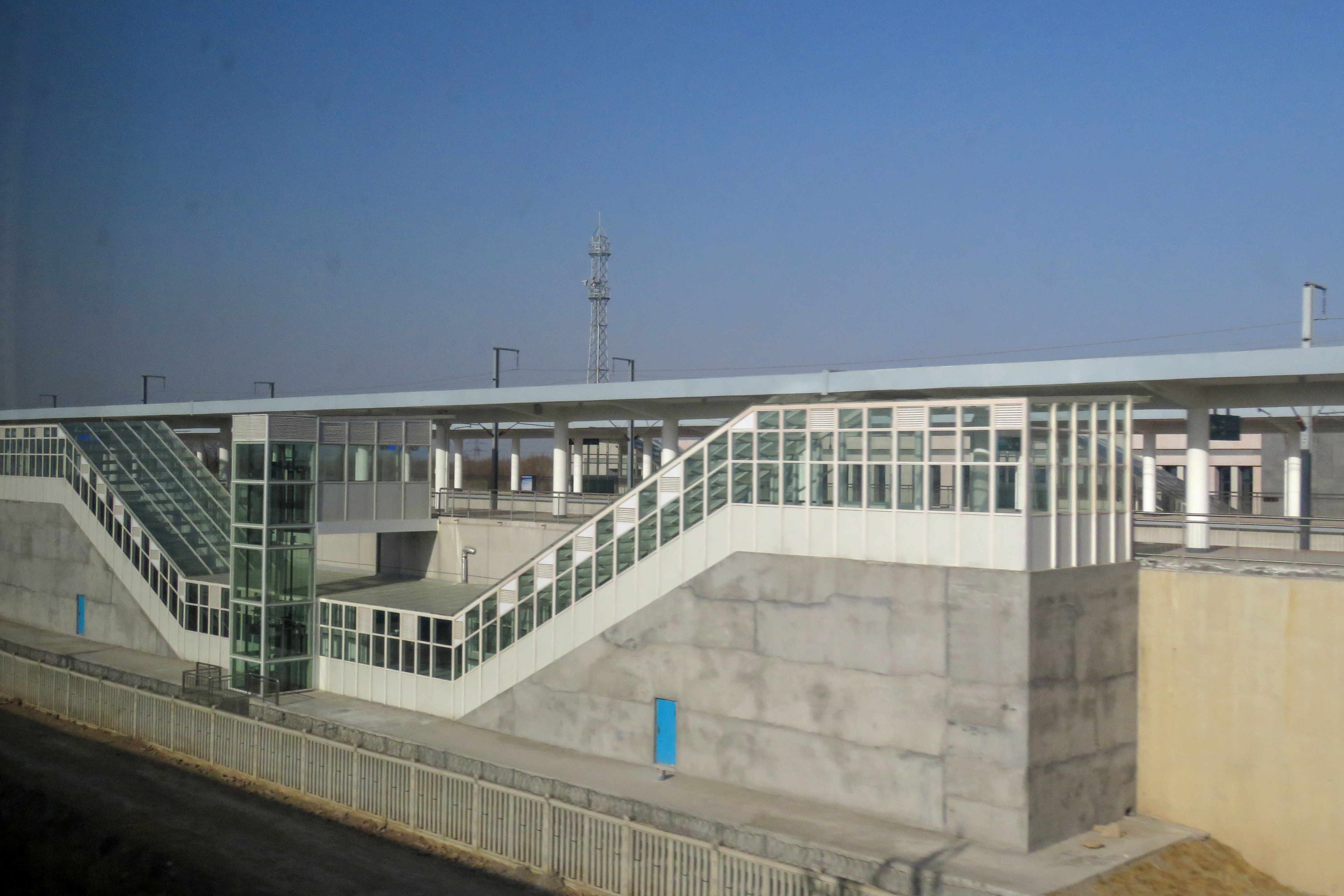 These two stations face east...